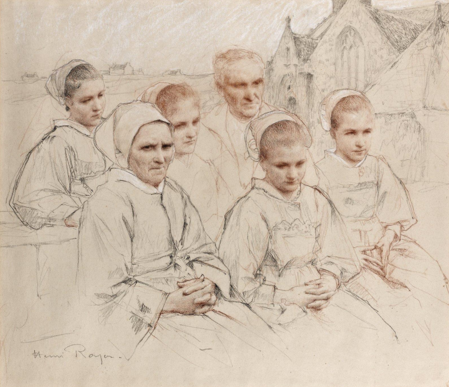 Henri Royer (1869-1938) - Family from Brittany praying in front of the Pont-Croix Church, 47 x 53 cm